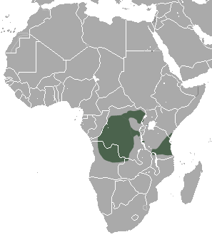 Angola Colobus (Colobus angolensis) range